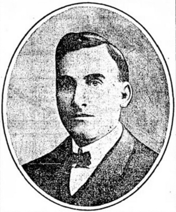 Arthur Phillips Murphy (Missouri Congressman)